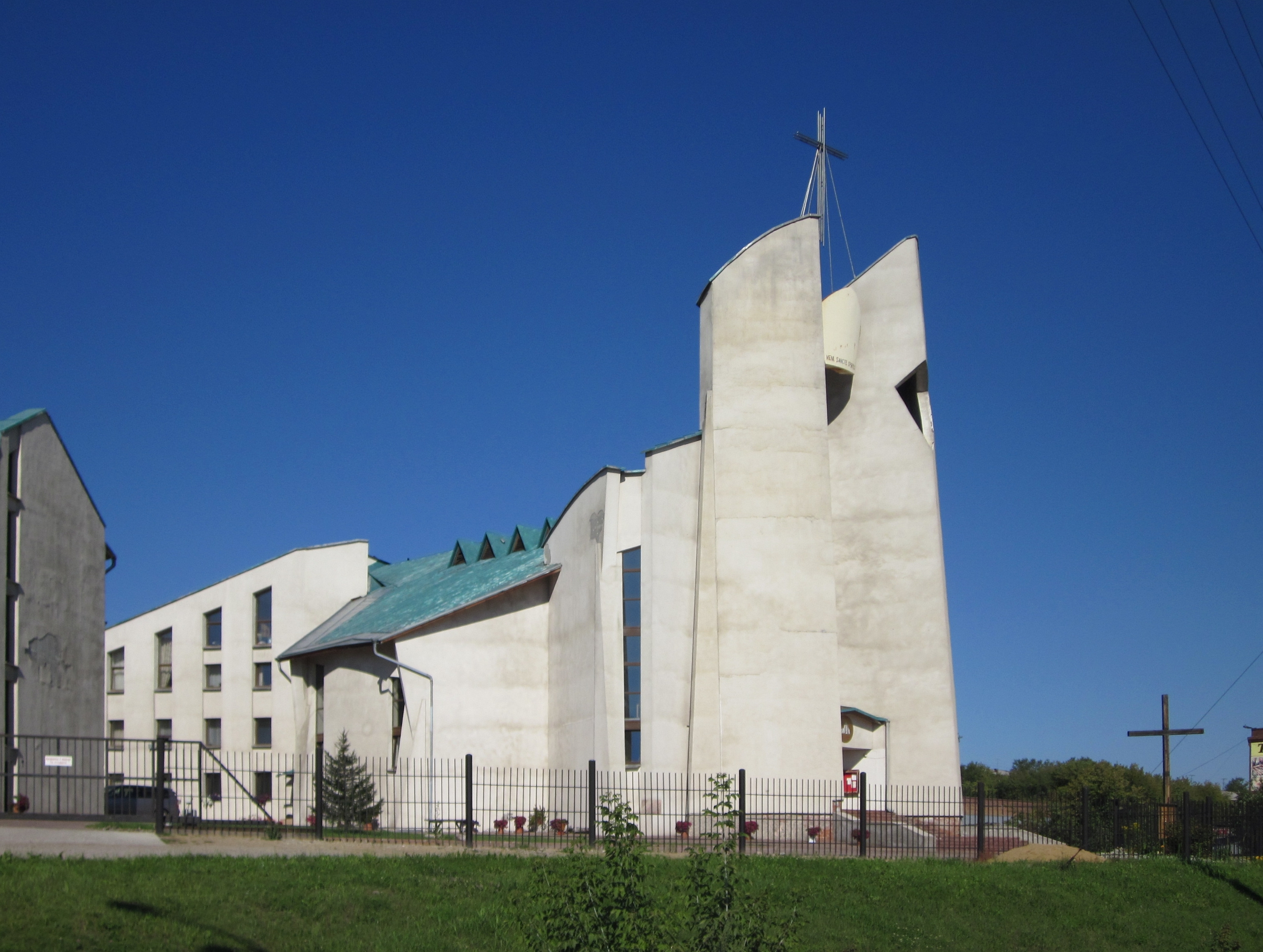 Immaculate Heart of Mary Roman Catholic Cathedral, Irkutsk, Russia